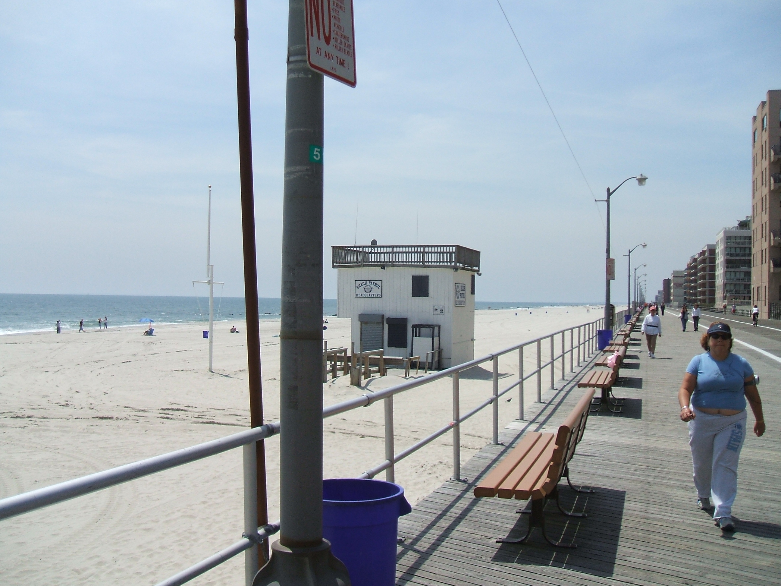 Beach Long Island, NY, USA